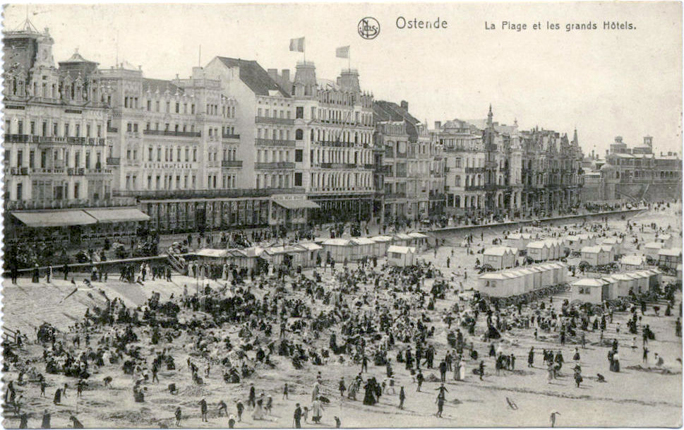 Several field postcards from Hans Boscher to his wife from Grodno / Hrodna in today's Belarus.